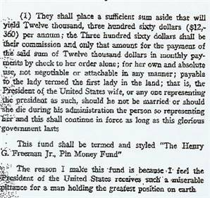 Excerpt from the Freeman Fund description, National Archives and records Administration.